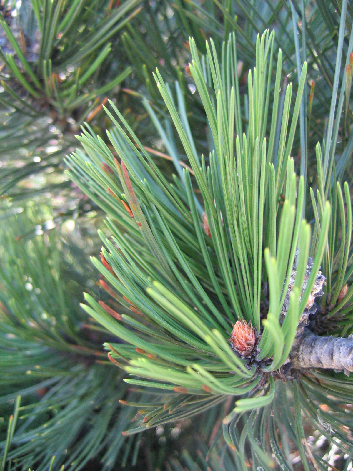 Bosnian Pine cultivar 'Compact Gem' (Pinus heldreichii 'Compact Gem' Great Britain, before 1964), Wrocław University Botanical Garden, Wrocław, Poland.